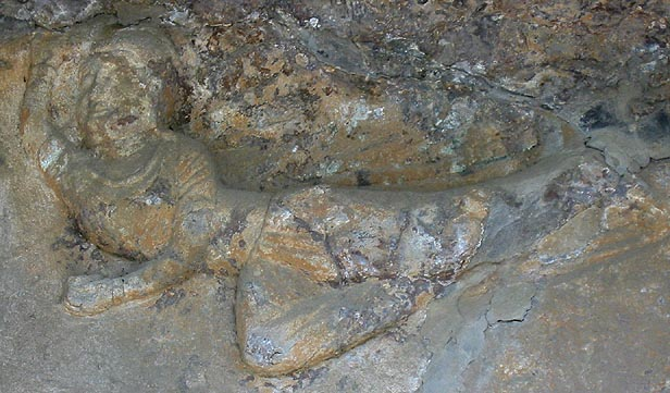 Apsara near Jingshan Temple Cave, Longmen Grottoes, Luoyang, Henan, China. Taken 2004-05-06 by prat.